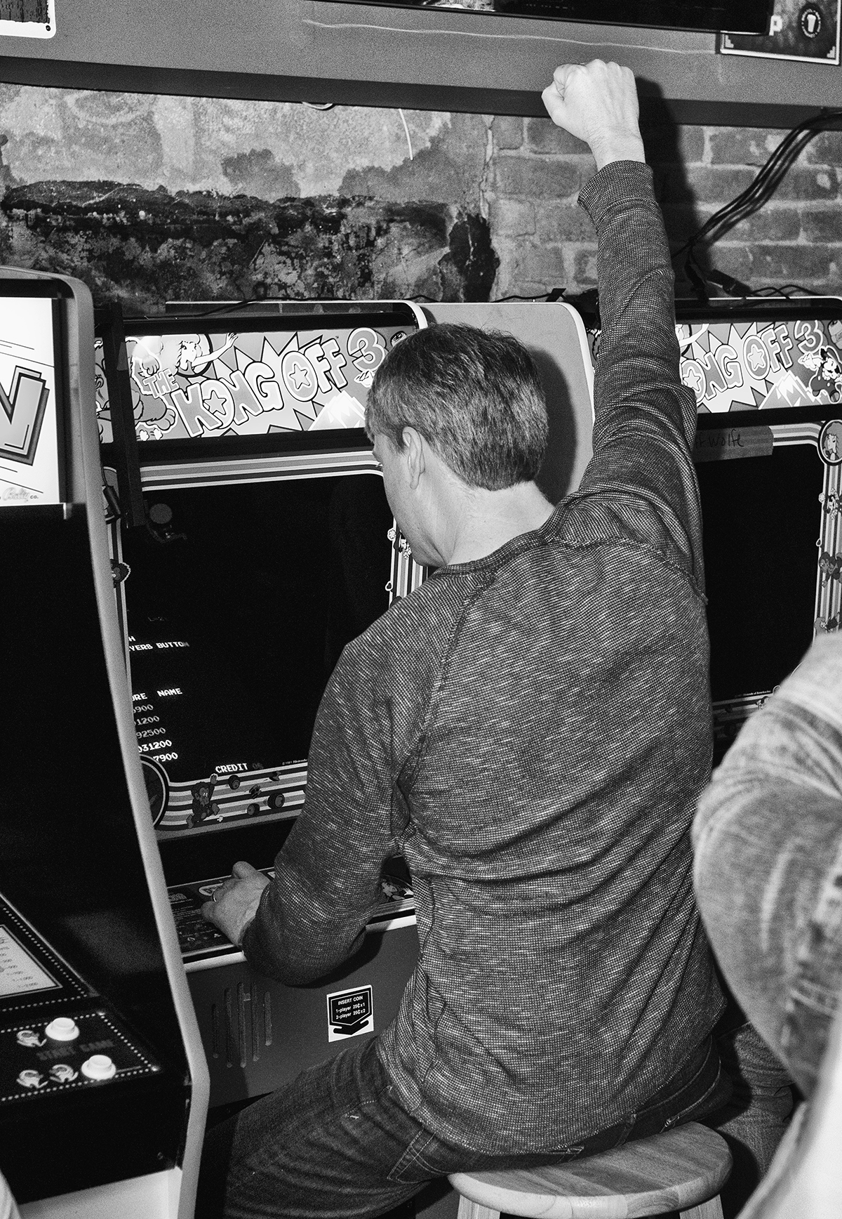 Steve Wiebe playing Donkey Kong at the Kong Off 3 in Denver Colorado. Steve is giving his iconic fist pump, as seen in the movie King of Kong.